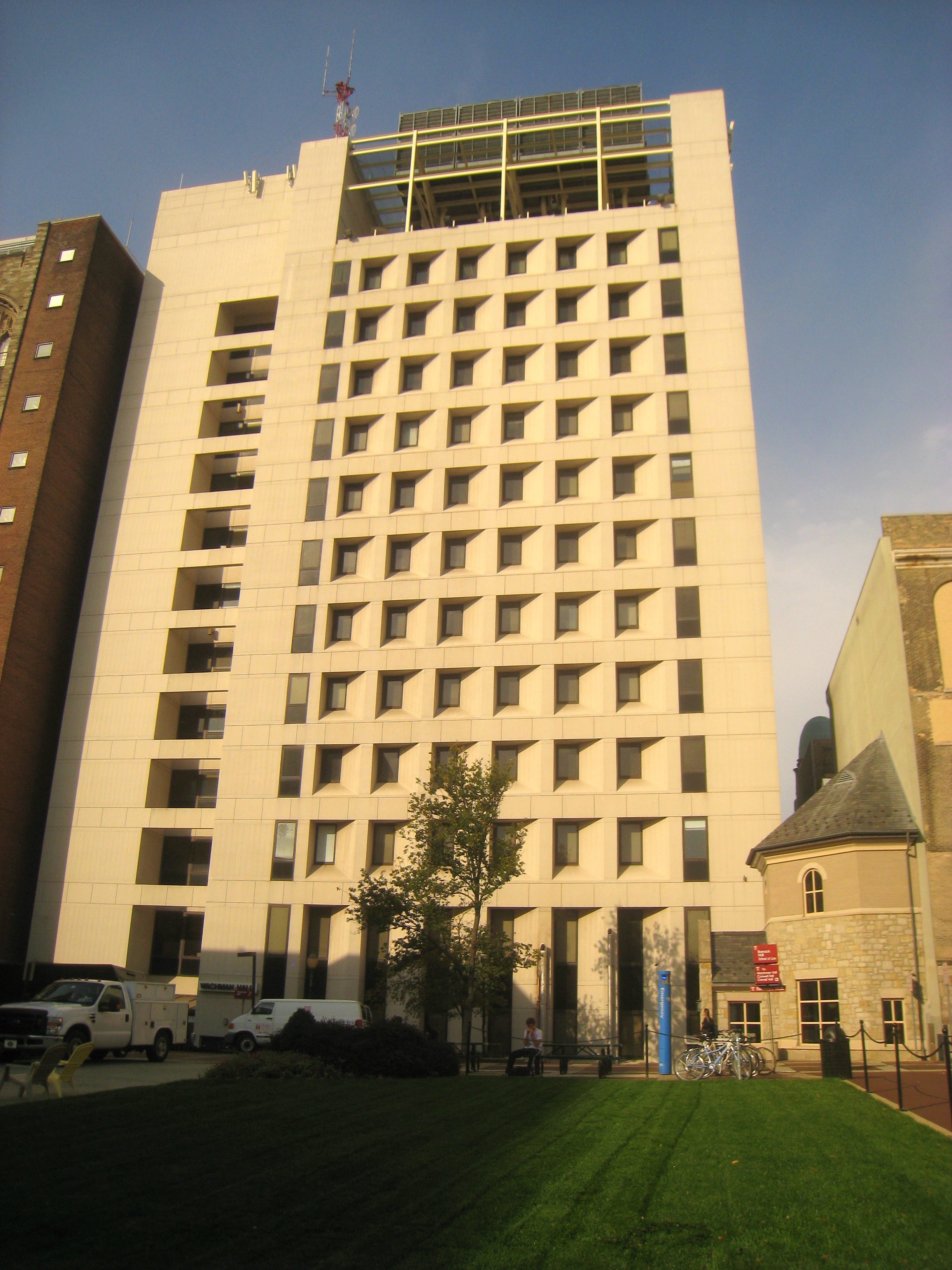 Wachman Hall (campus side), Temple University, Philadelphia, Pennsylvania, USA.